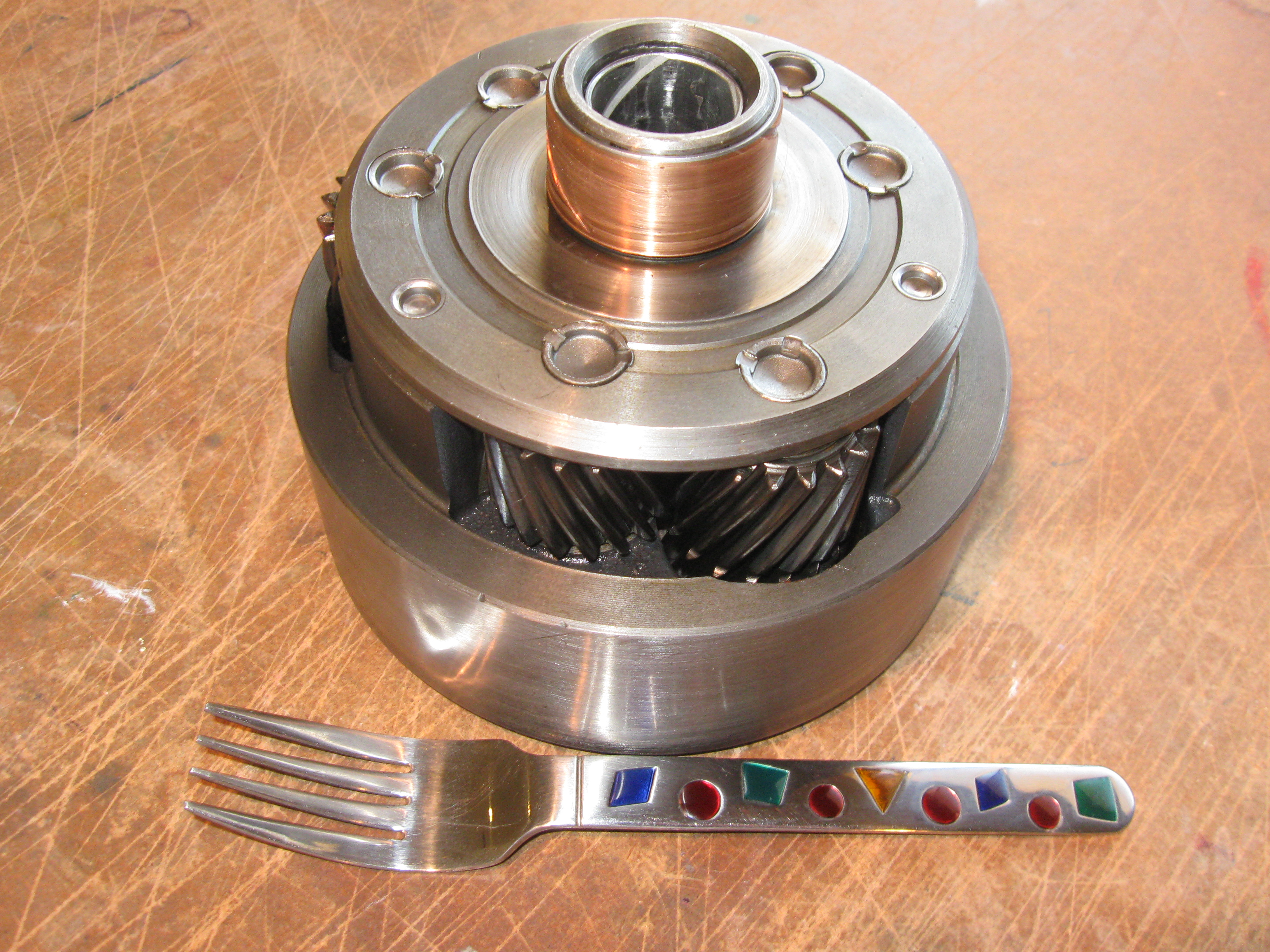 From a Ford FMX automatic transmission, with a dinner fork to show scale. Two sets of of three planet gears are on a common carrier.